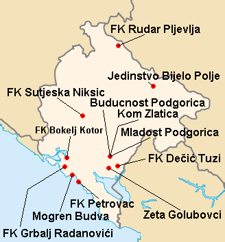 Répartition des clubs en Prva Crnogoska Liga 2007-2008.